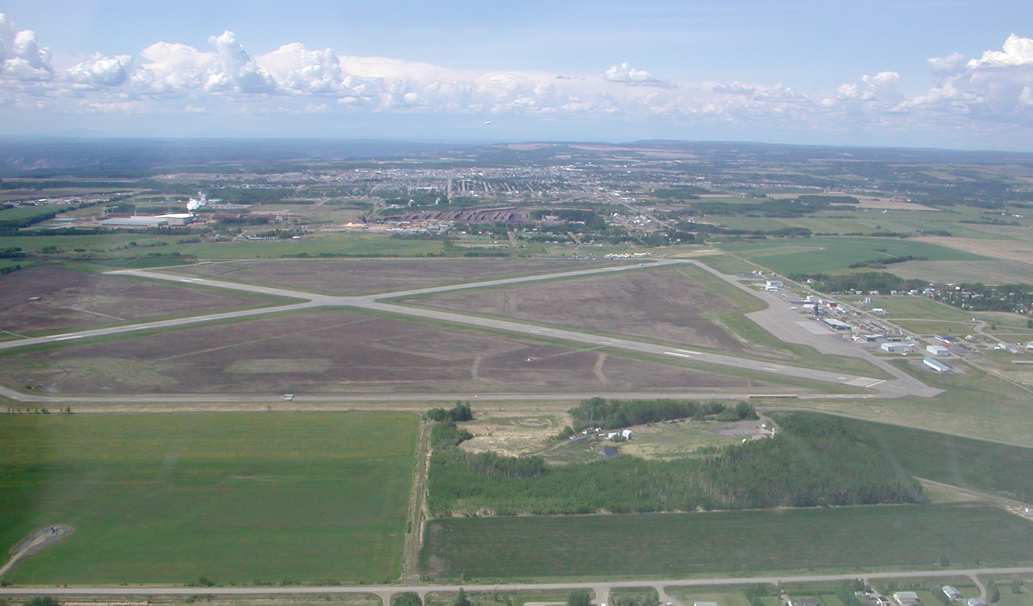 Fort St. John Airport, BC. May 28, 2006.